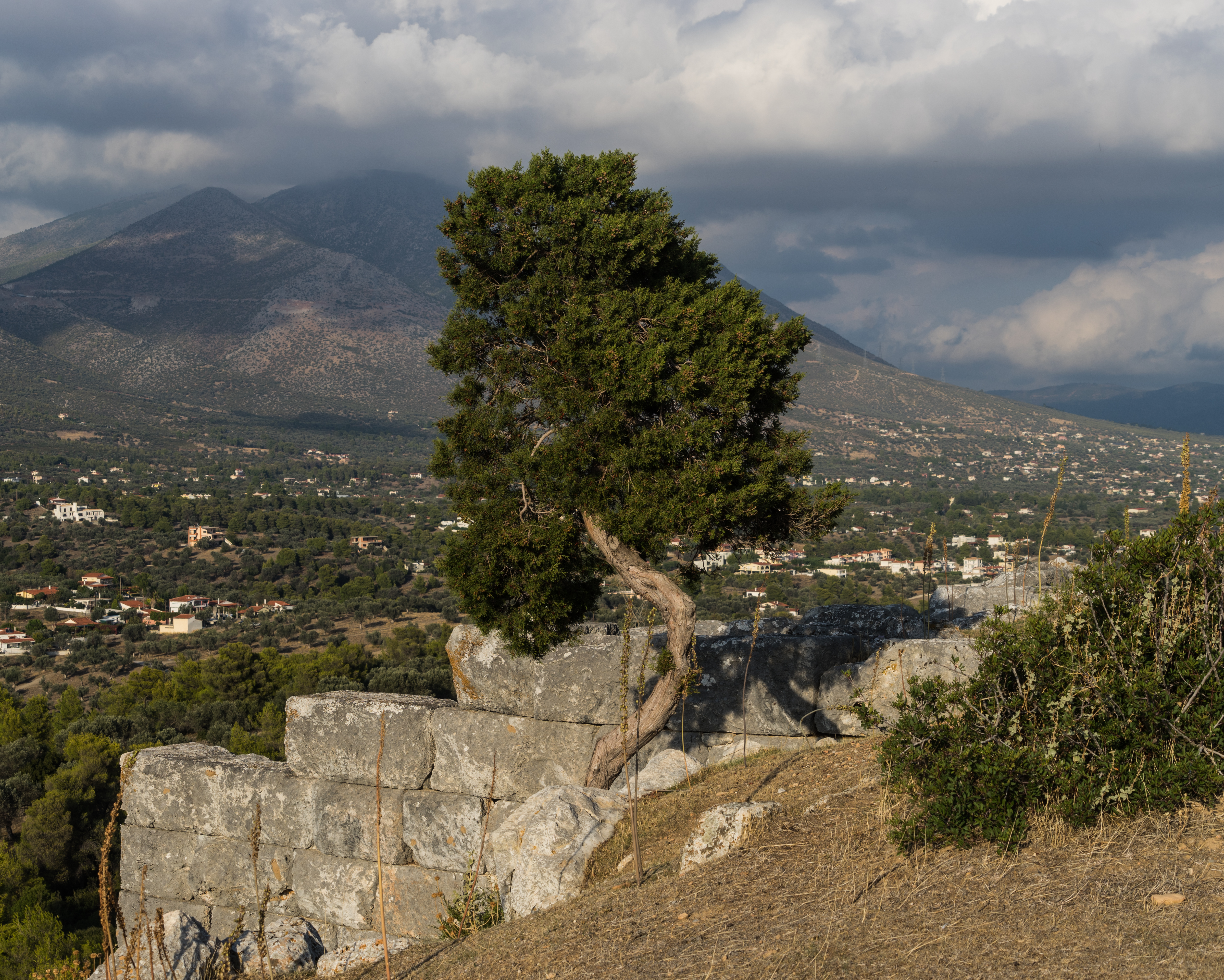 A cypress in the walls of the Acropolis of Eretria, Euboea, Greece.